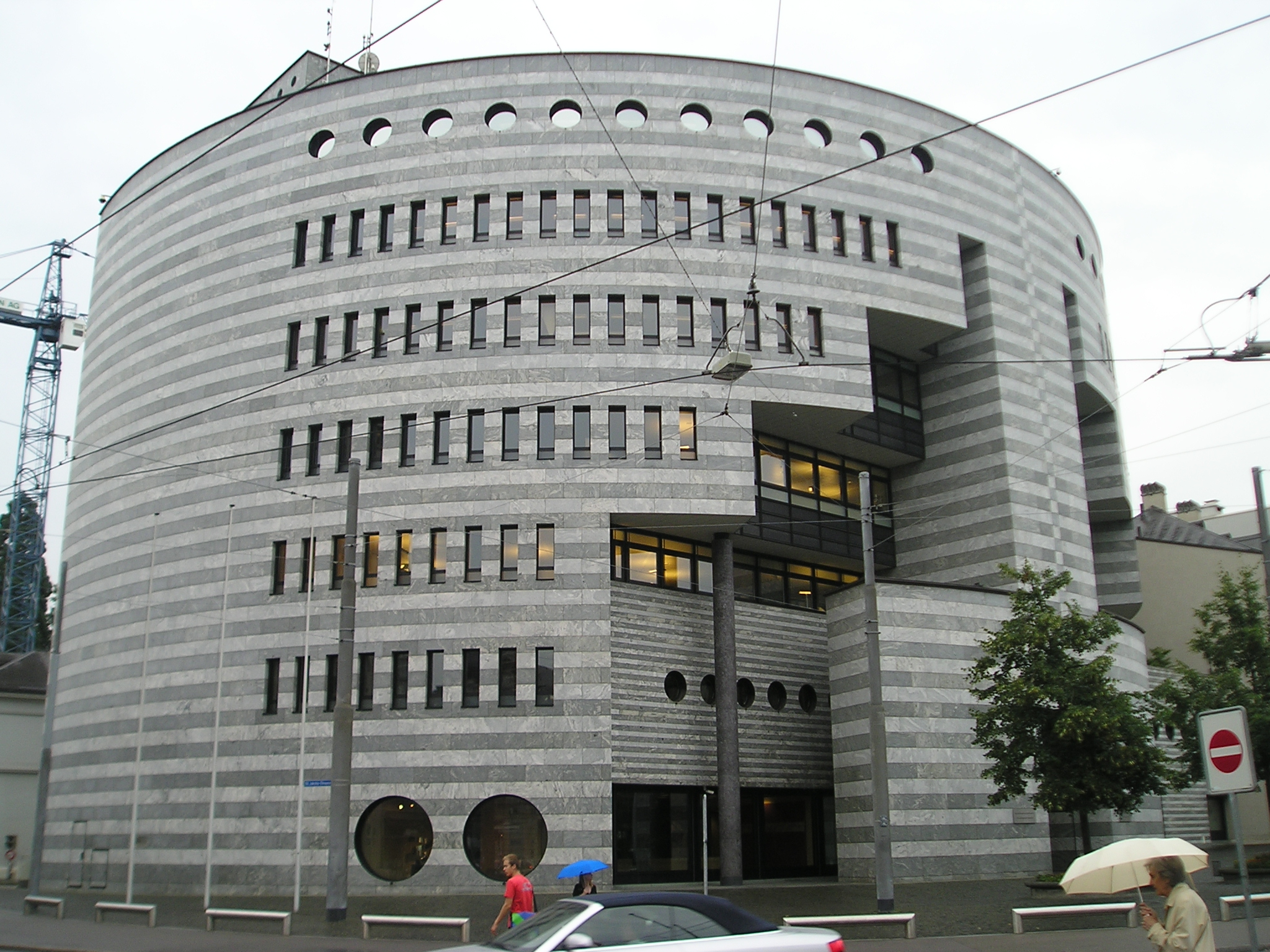 View of a building by Mario Botta, currently belonging to the Bank for International Settlements, in Basel, Switzerland